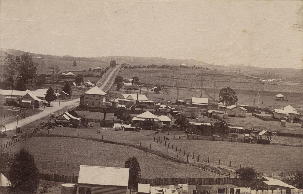 Overlooking the town of Marburg, ca. 1908. View of Marburg town and district, featuring the two storey Marburg Hotel in the centre of town.